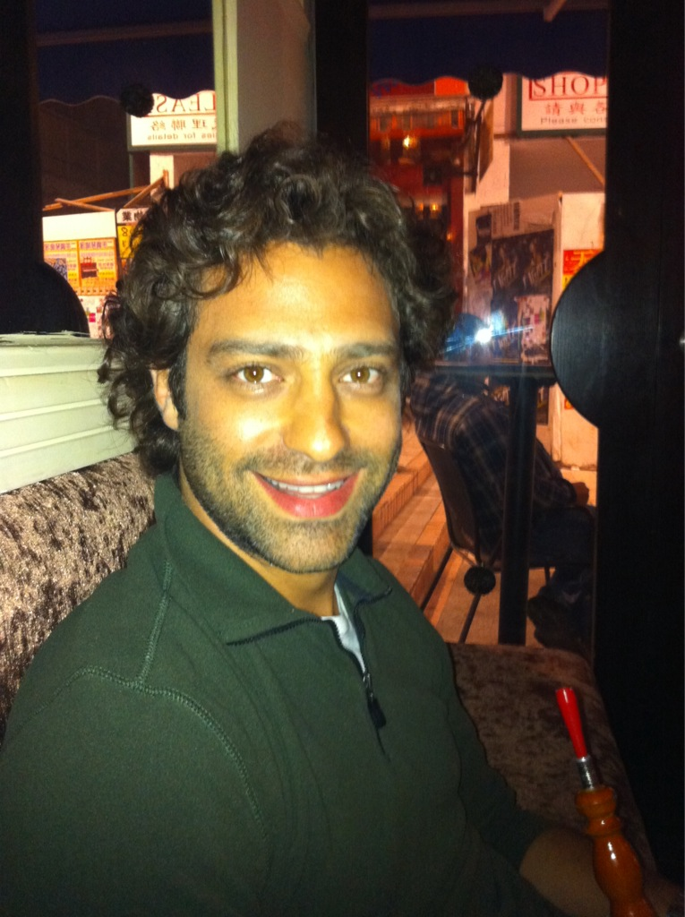 Take this picture with my celular